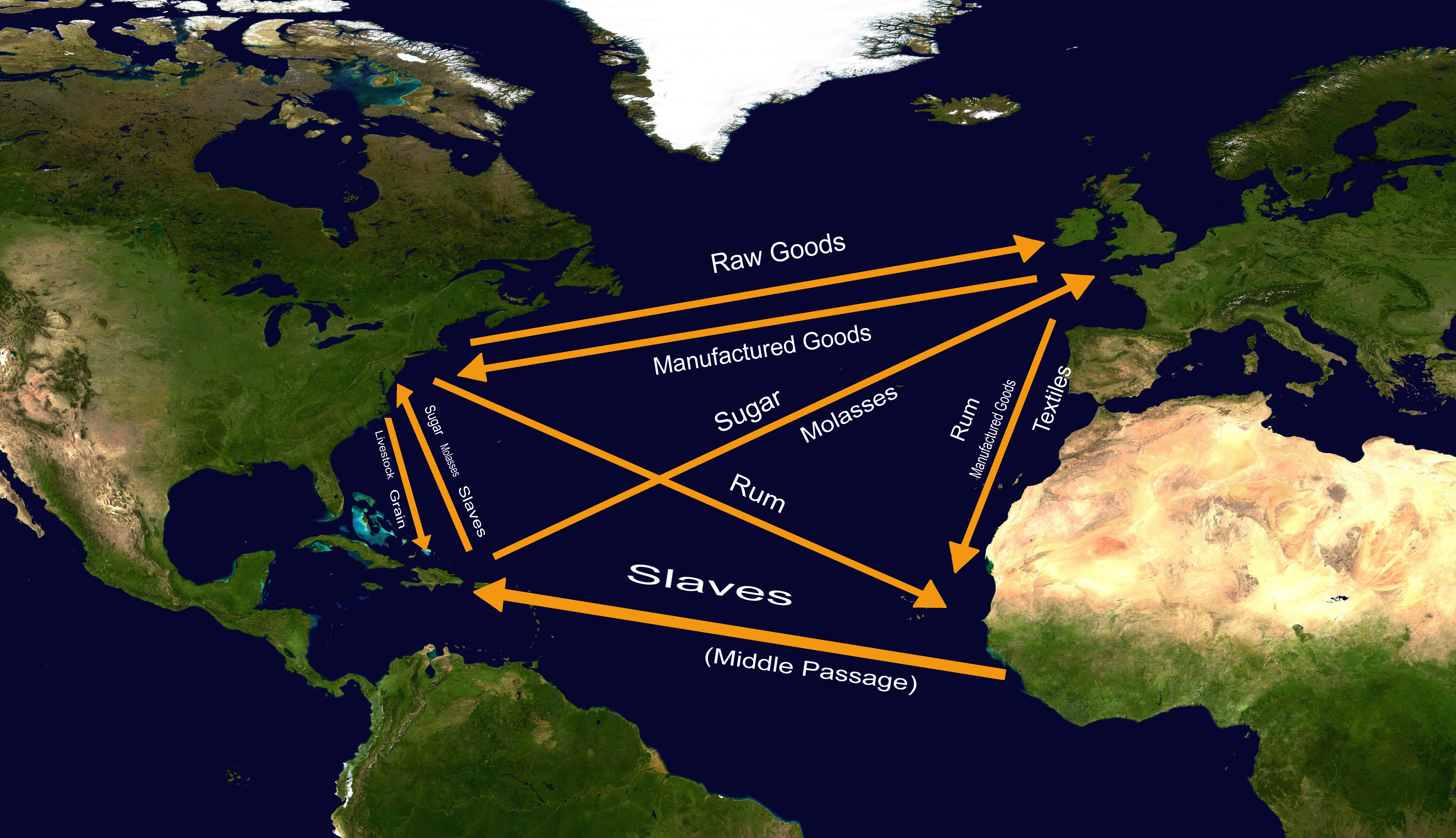 Detailed Map of the products being traded in the Triangle Trade.